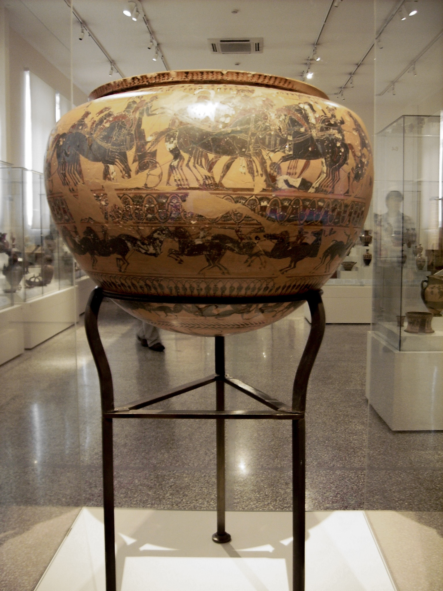 Attic black-figure name vase (Lebes) of the Painter of Athens 606 dedicated to the Goddess Athene at the Acropolis of Athens; main zone. Combat between different chariots and hoplits over a dead warrior body, in the background fighting warriors; secondary zone: battle between greek and phrygians (with archers) cavalry; other zones: floral motifs and animals; on the bottom six protomes of horses and lions in a whirligig; about 570/560 BC.; National Archeological Museum Athens (15116)